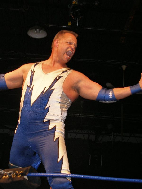 Professional wrestler Glacier at Chikara's King of Trios tournament in March 2008.